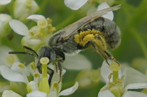 Sweat bee of the species Lasioglossum semicaeruleum on flowers of Lepidium draba or Cardaria draba, whichever name you like. Thanks to John Ascher at for identification.